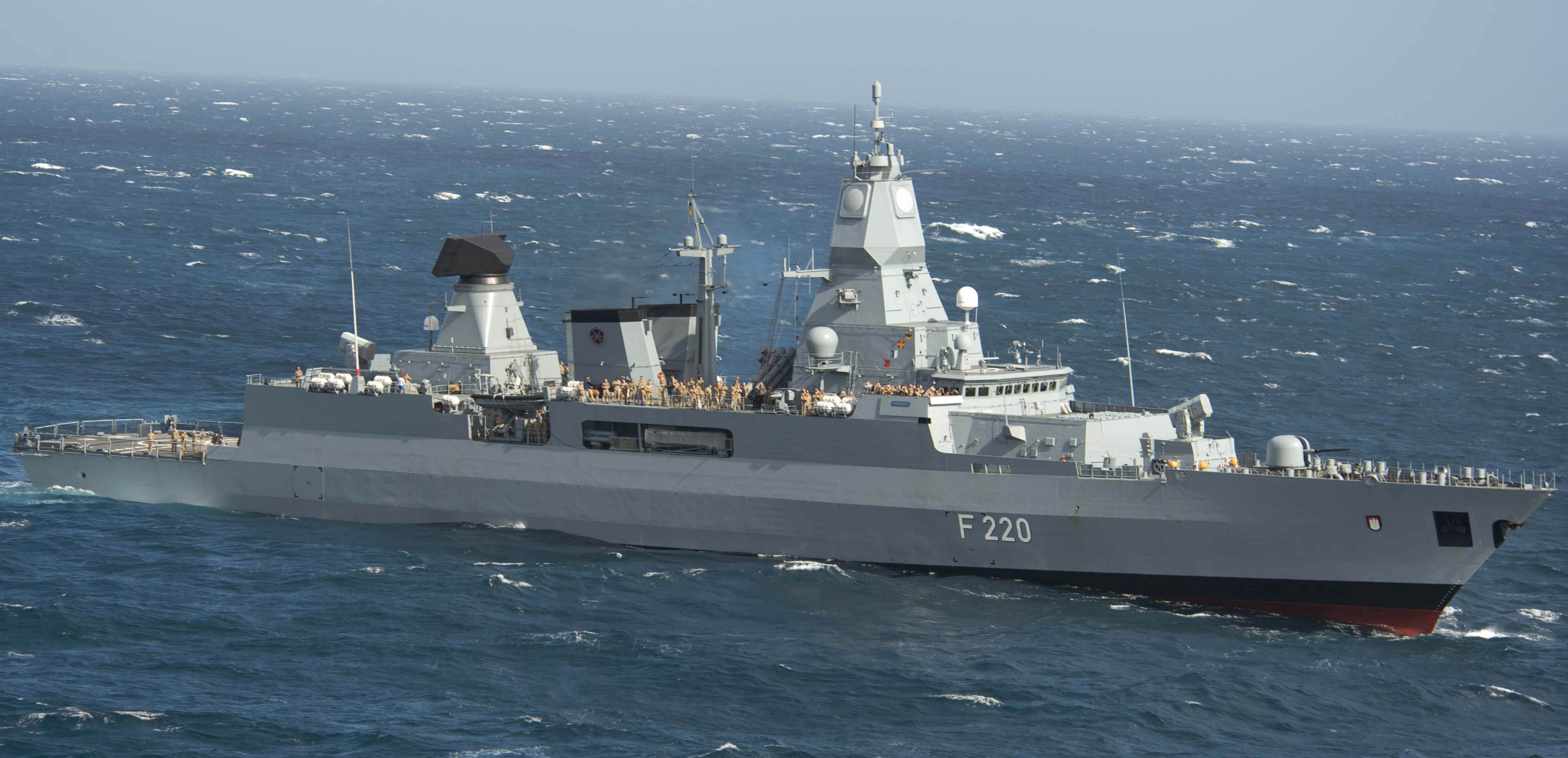 The German Navy frigate Hamburg (F220) underway in the Mediterranean Sea as part of the U.S. Navy Dwight D. Eisenhower Carrier Strike Group.